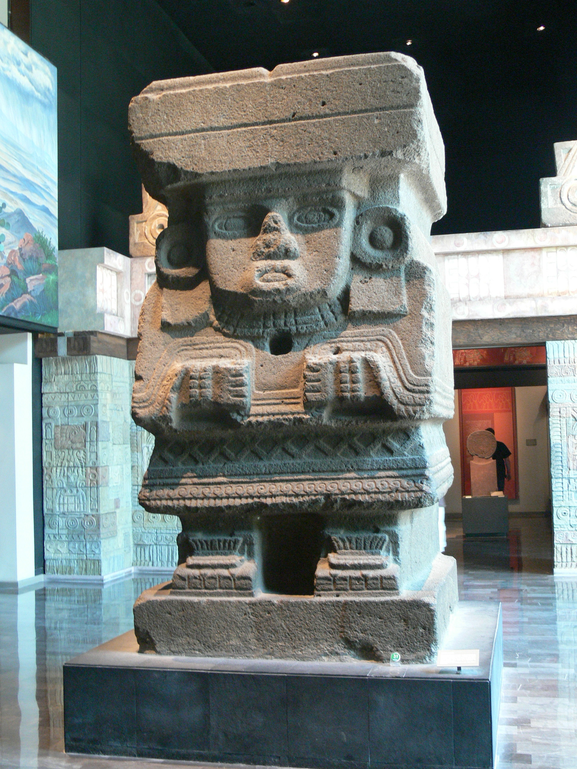 National Museum of Anthropology - Teotihuacán. Chalchiuhtlicue, godess of horizontal waters, like lakes and rivers. The sculpture comes from the front of the Pyramid of the Moon. Note: Chalchiuhtlicue is an Aztec deity. This sculpture is instead likely to be the Great Goddess of Teotihuacan.[1]